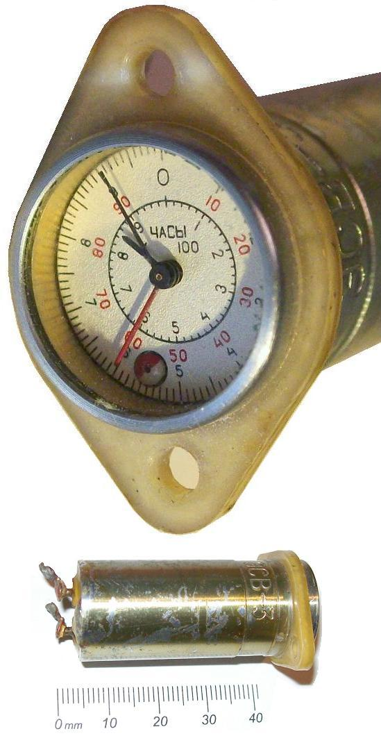 hobbs meter soviet union 1970ties (3 fingers show: 869,0 hrs)